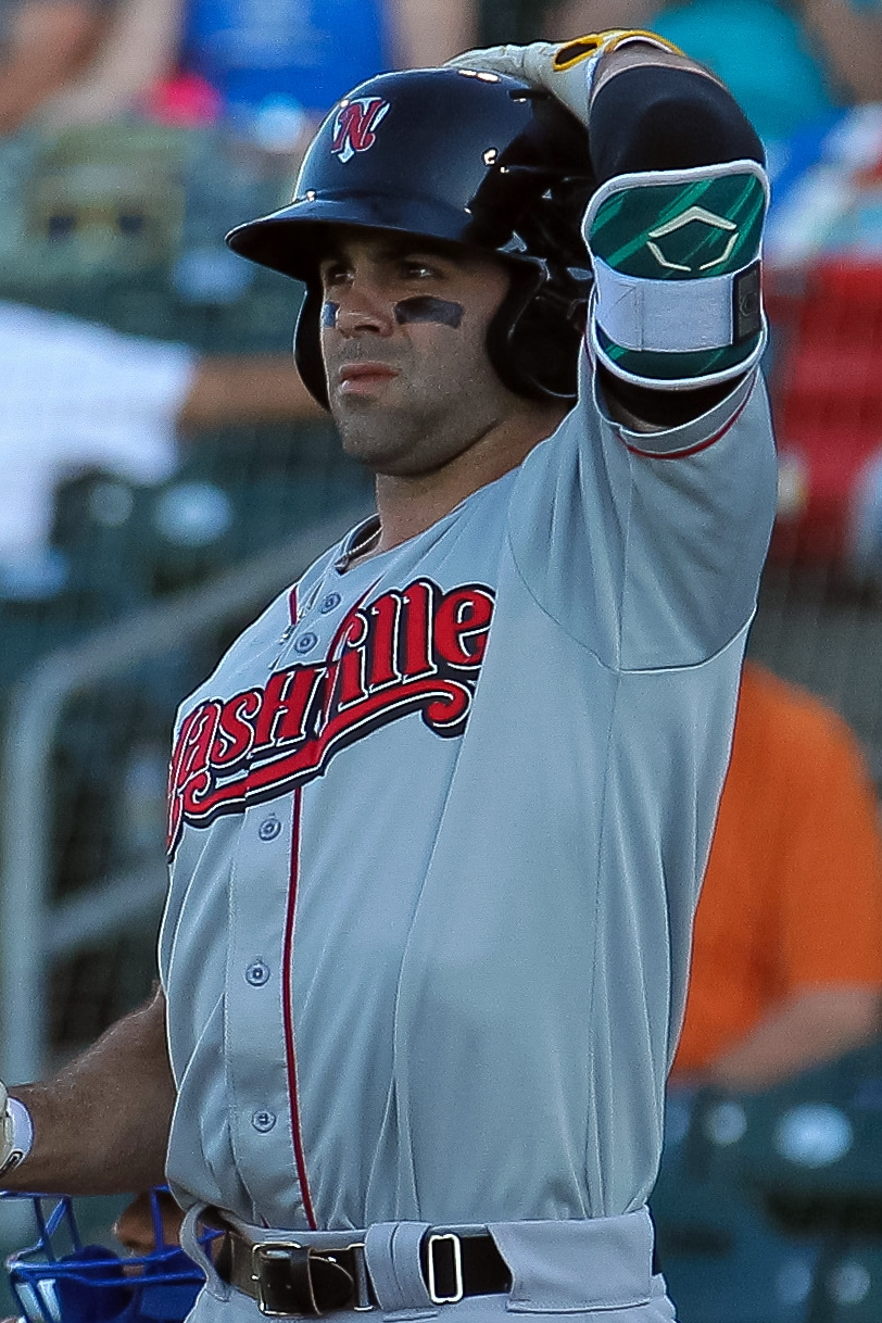 Minda Haas Kuhlmann | 2017 USAGE INSTRUCTIONS: You are welcome to share or publish to your own site or social media account, but you MUST credit me, Minda Haas Kuhlmann, or by my Twitter handle (@minda33) or Instagram (minda.haas).